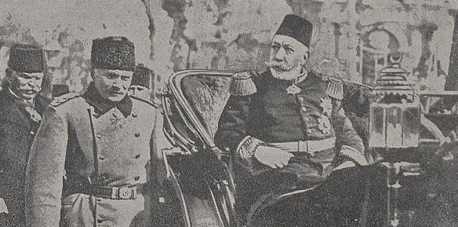 Mohammed 5th on conveyance.